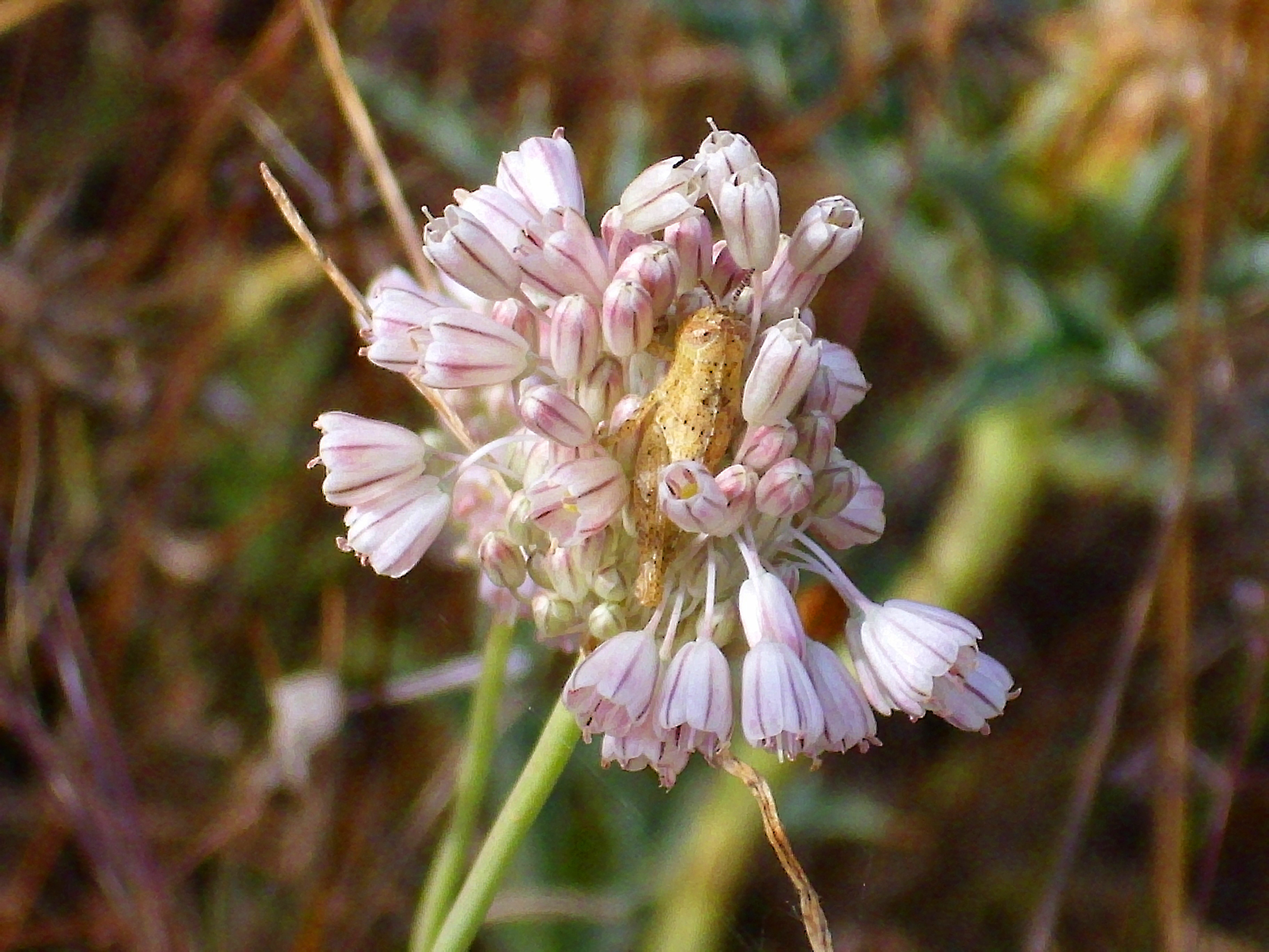 Allium paniculatum inflorescence, Campo de Calatrava, Spain